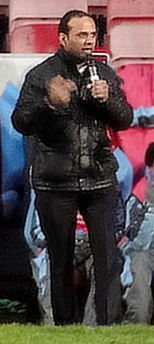 "Singer" One Pound Fish Man performing at half-time in the match between West Ham United and Everton at The Boleyn Ground, London, December 2012